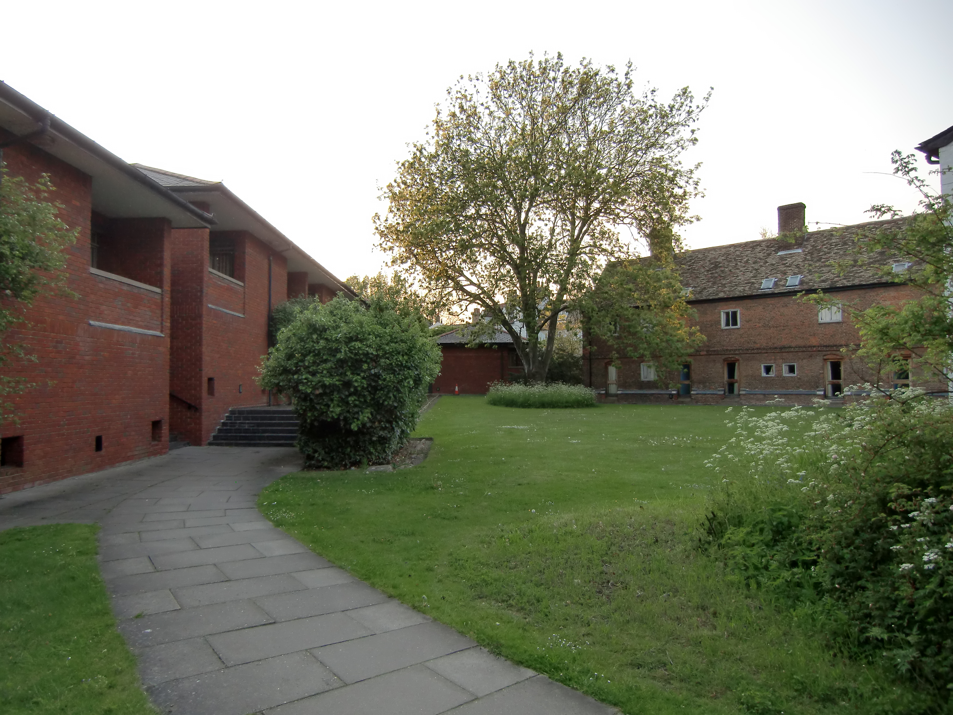 Buckingham Court, Magdalene College, Cambridge.